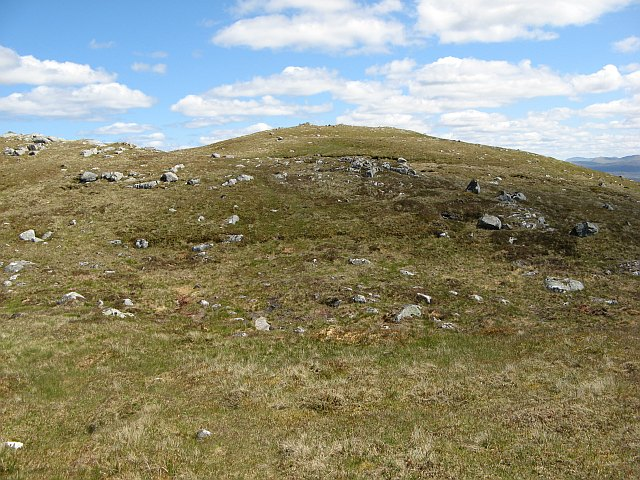 Stob na Cruaiche Eastwards view along the ridge towards the summit. A' Chruach is a big hill stretching into Rannoch Moor from the west. It appears to be made of a schist, more resistant to erosion than Rannoch Moor's granite. There are numerous granite boulders scattered over the hill.